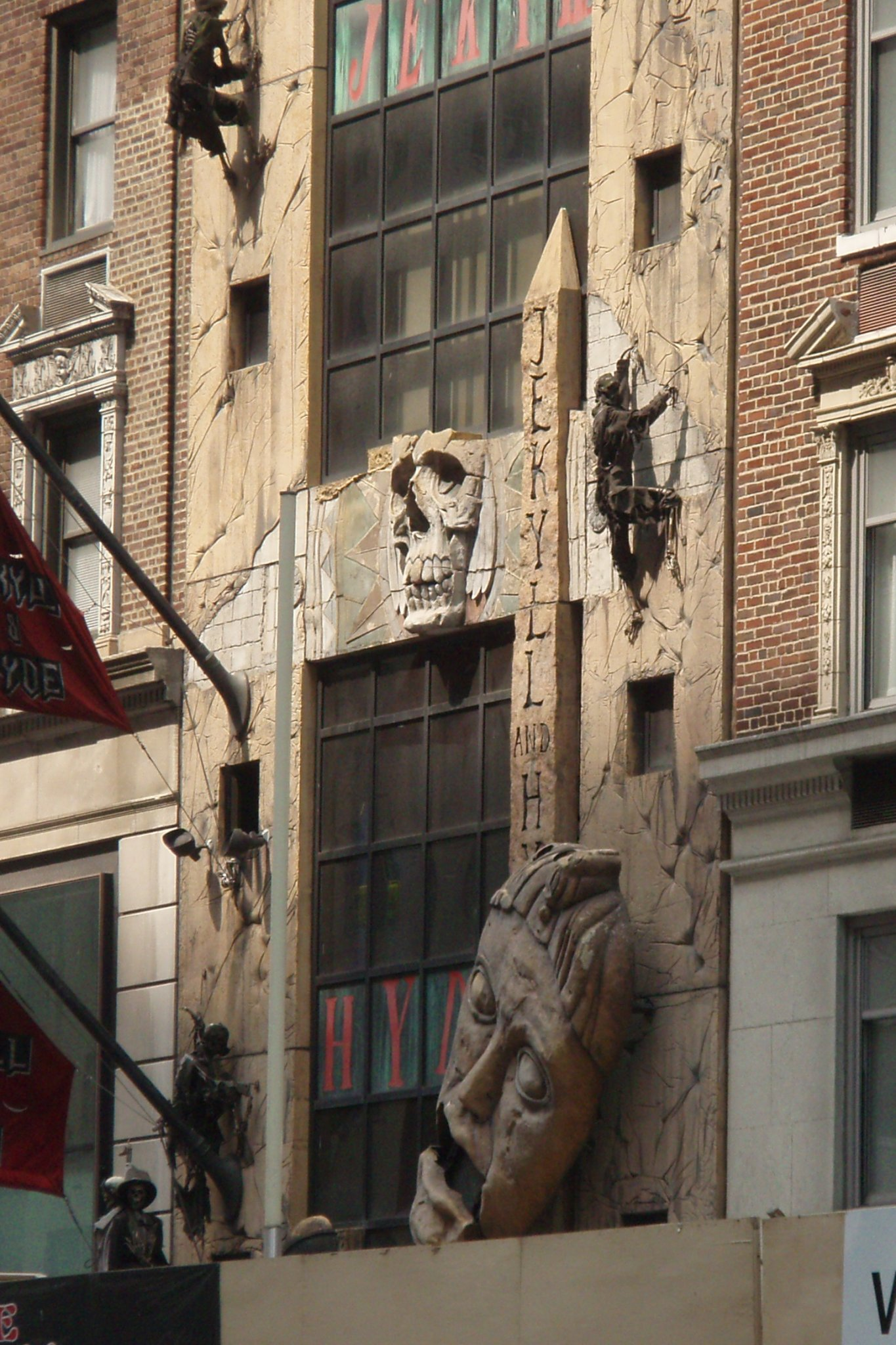 Outside of the Jekyll & Hyde Club at 1409 6th Avenue, Manhattan, NY, looking west. This photo was taken on 2007-08-07 at the intersection of 6th Avenue and 57th Street.